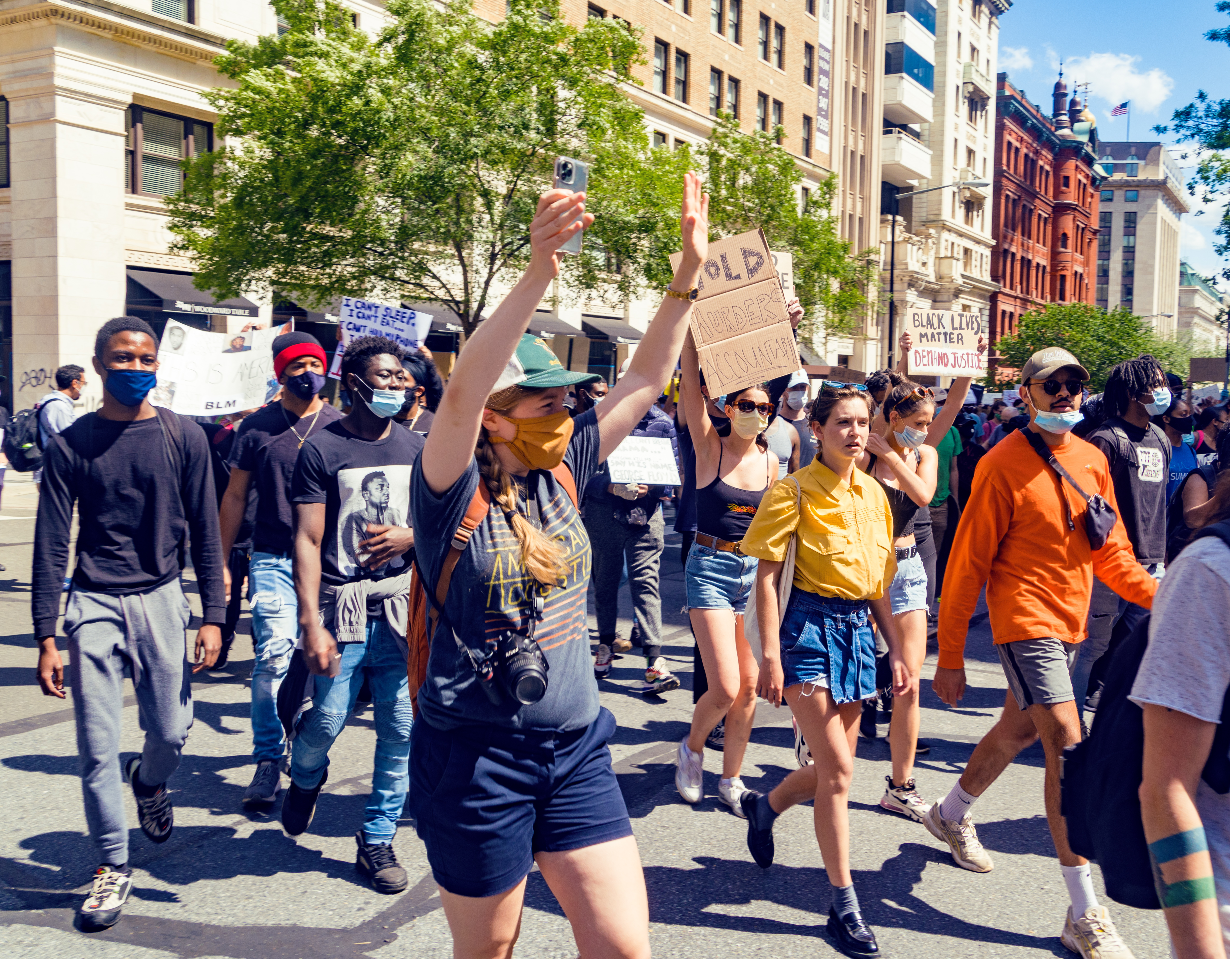 2020.05.31 Protesting the Murder of George Floyd, Washington, DC USA 152 35030